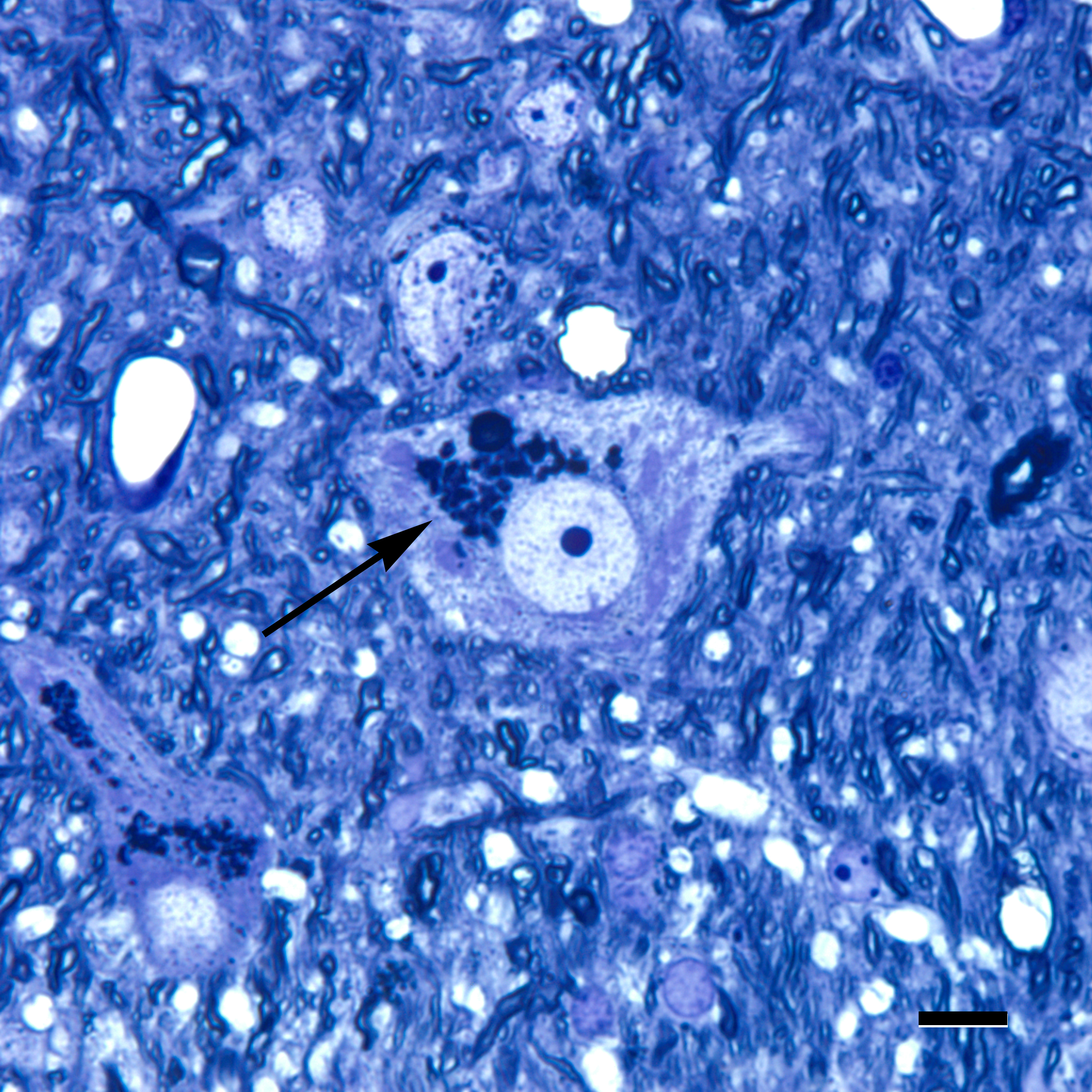 This is a photograph of a brain nerve cell (neuron) taken with a microscope using a 100X oil-immersion objective. The arrow indicates a cluster of lipofuscin particles in the cytoplasm. The tissue was embedded in plastic, cut at a thickness of 2 microns, and stained with the dye toluidine blue. The bar at the lower right indicates a distance of 10 microns (0.01 millimeters).